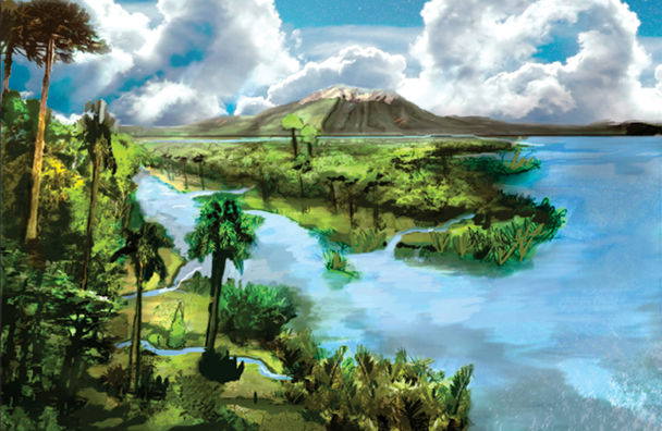 Main floristic types from the Maastrichtian: Ferns, palms, conifers.